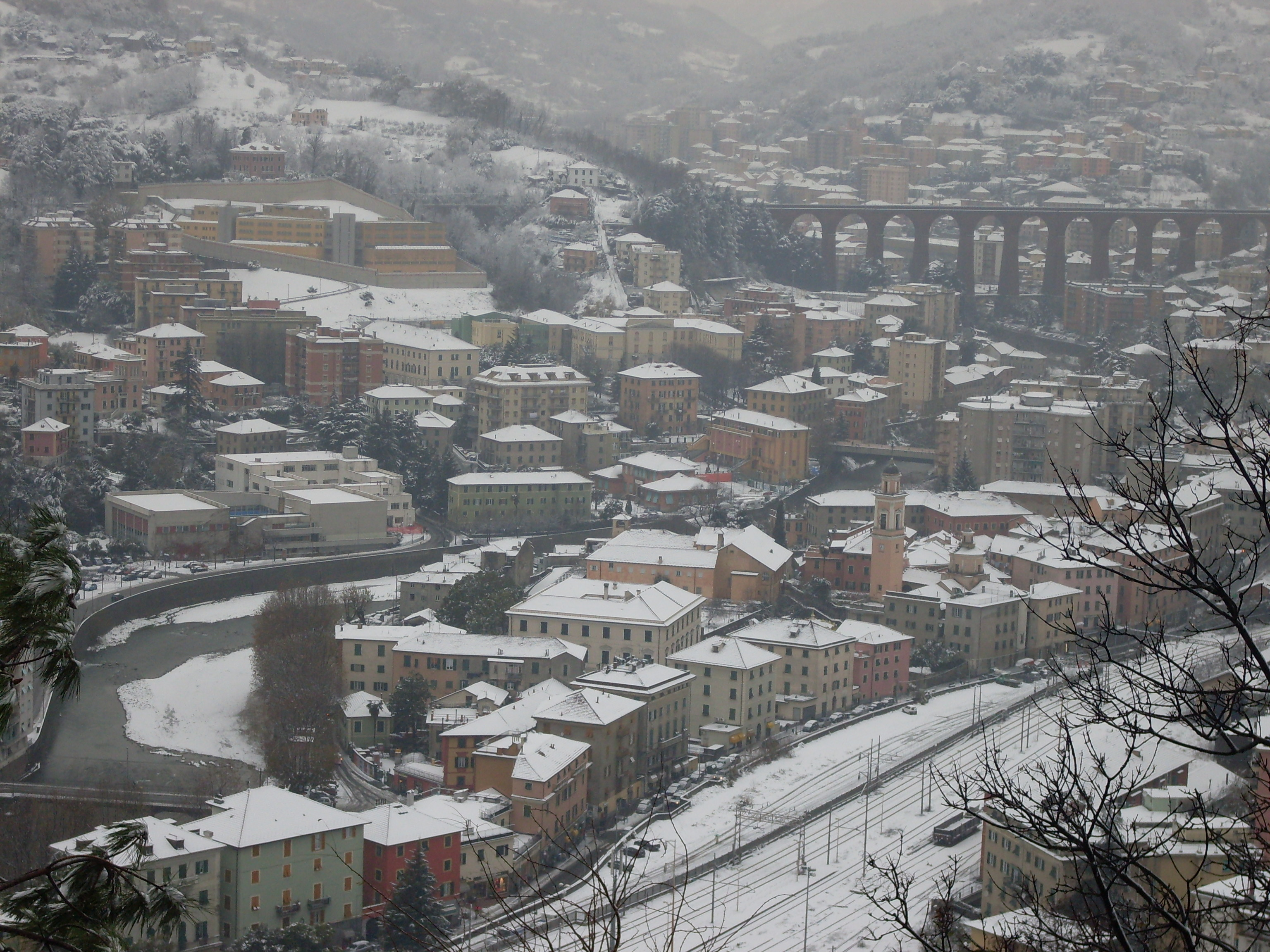 Snow on Pontedecimo, a periferical part of Genoa, Liguria, Italy